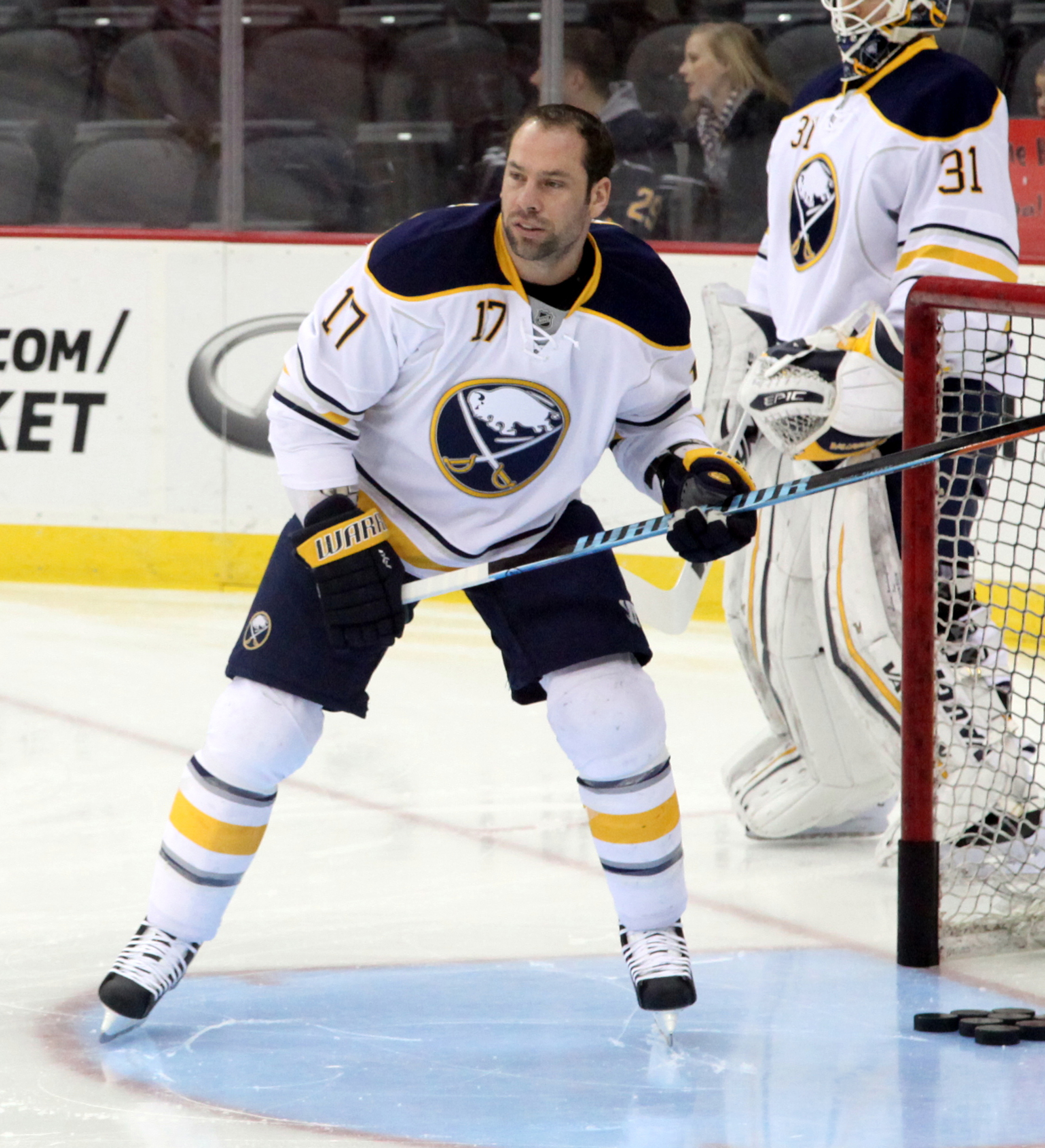 David Legwand in April 2016.